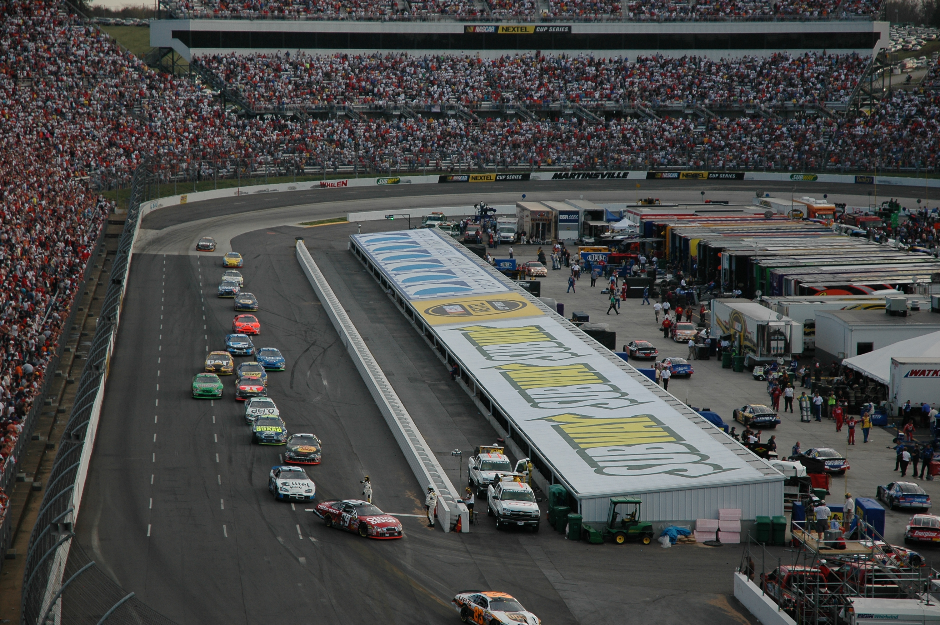 Backstretch of Martinsville Speedway after spring race 2006